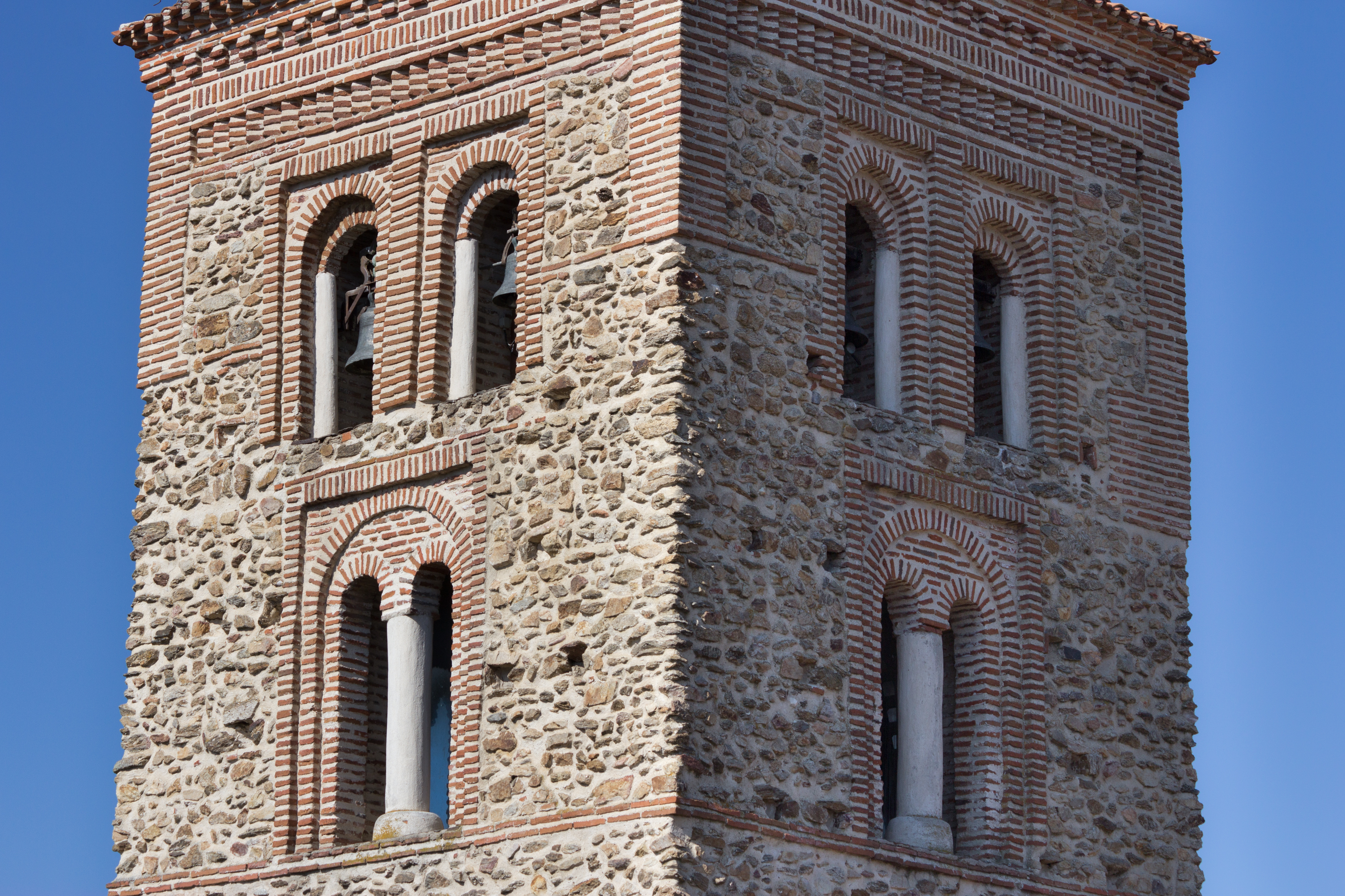 Church of Santa María del Castillo, Buitrago del Lozoya, Community of Madrid, Spain.